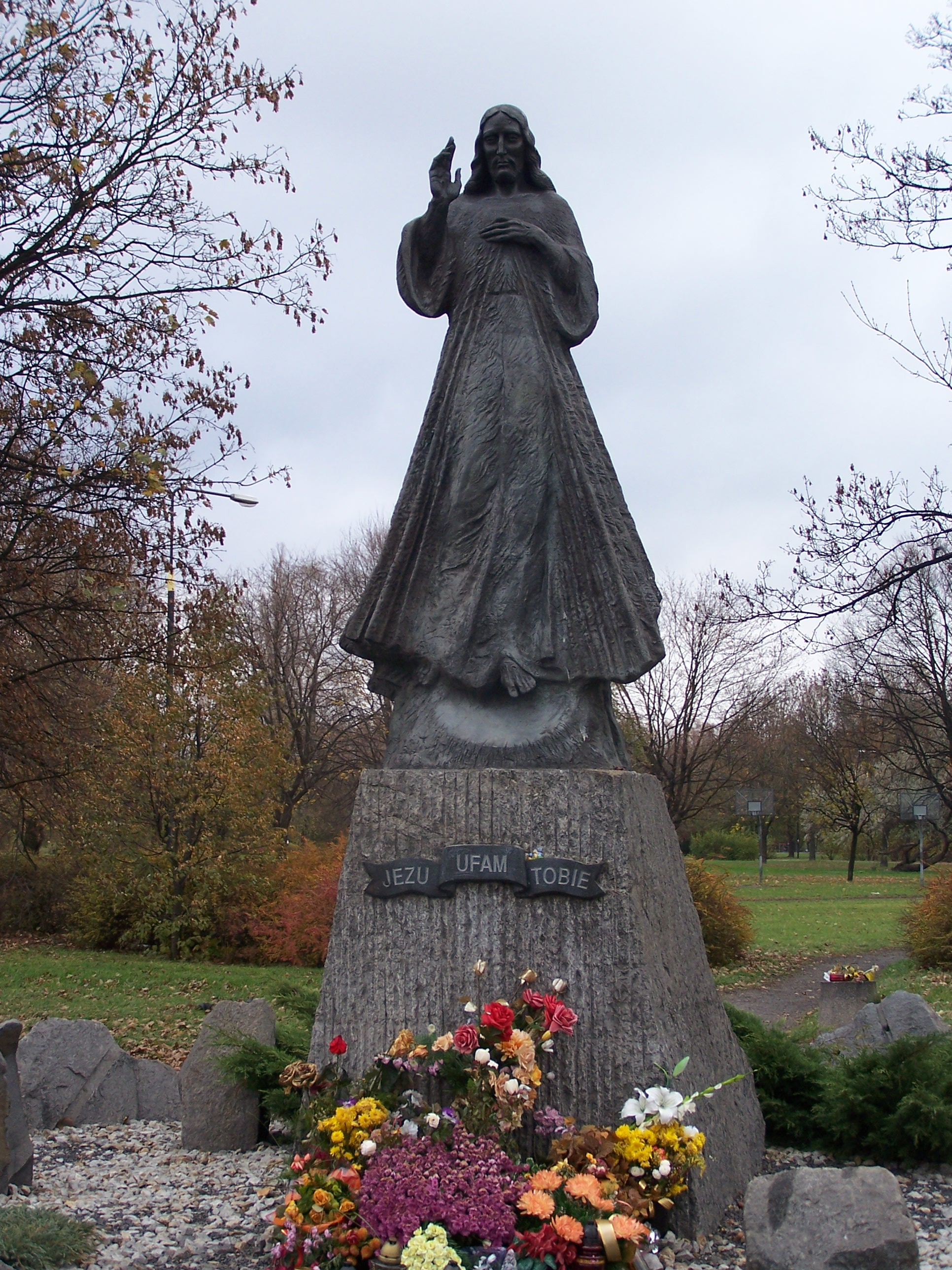 Monument of Divine Mercy in Warsaw - statue